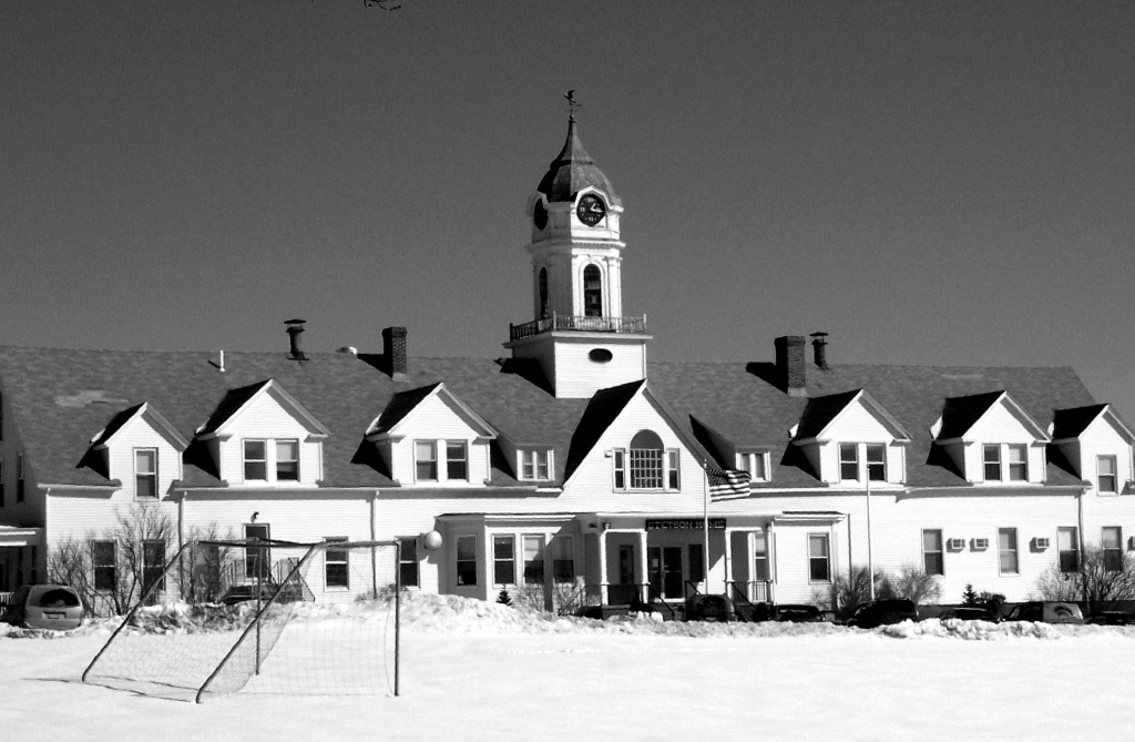 Photo uploaded by author, Richard B. Johnson